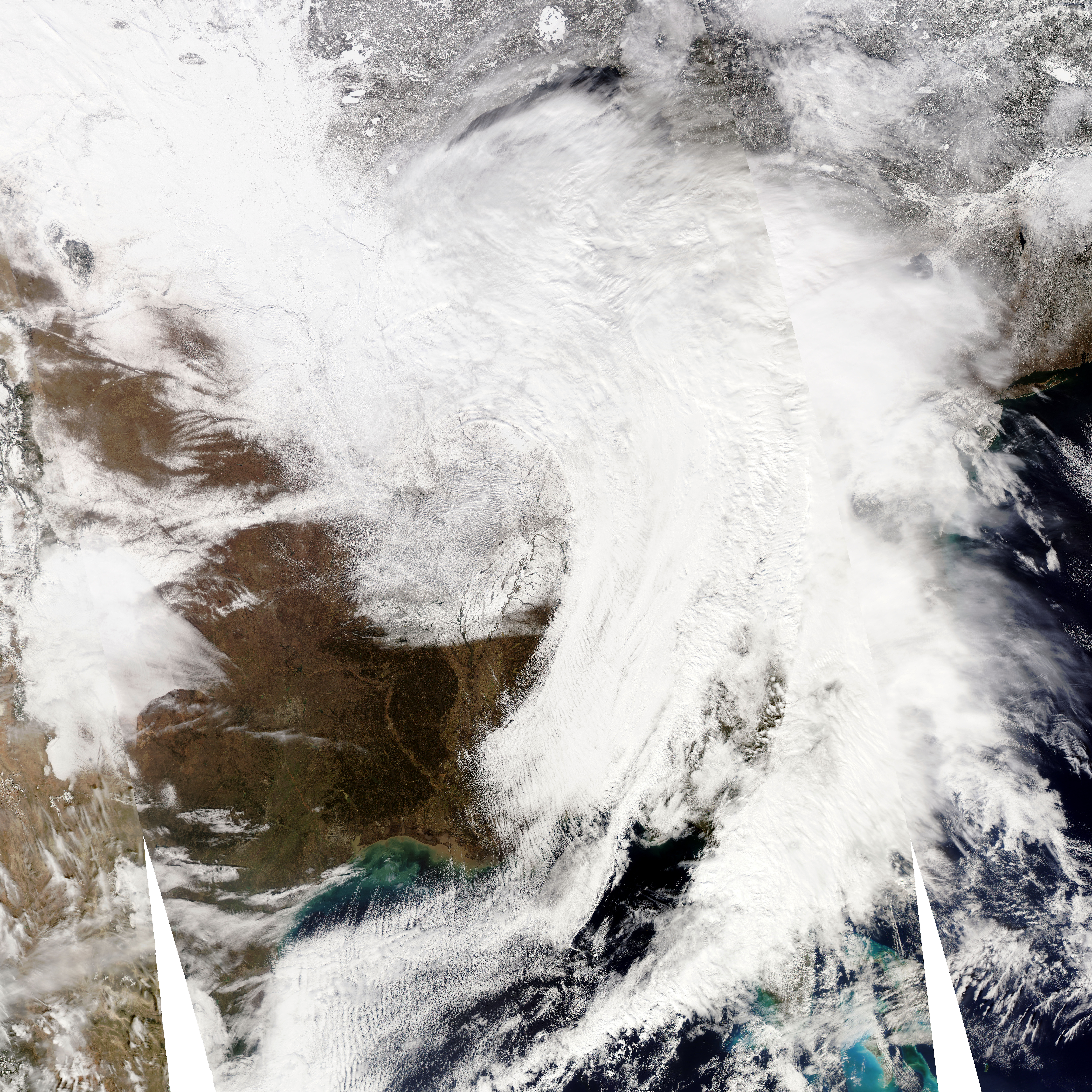 A powerful blizzard moves across the eastern coast of the United States of America on February 9, 2010.